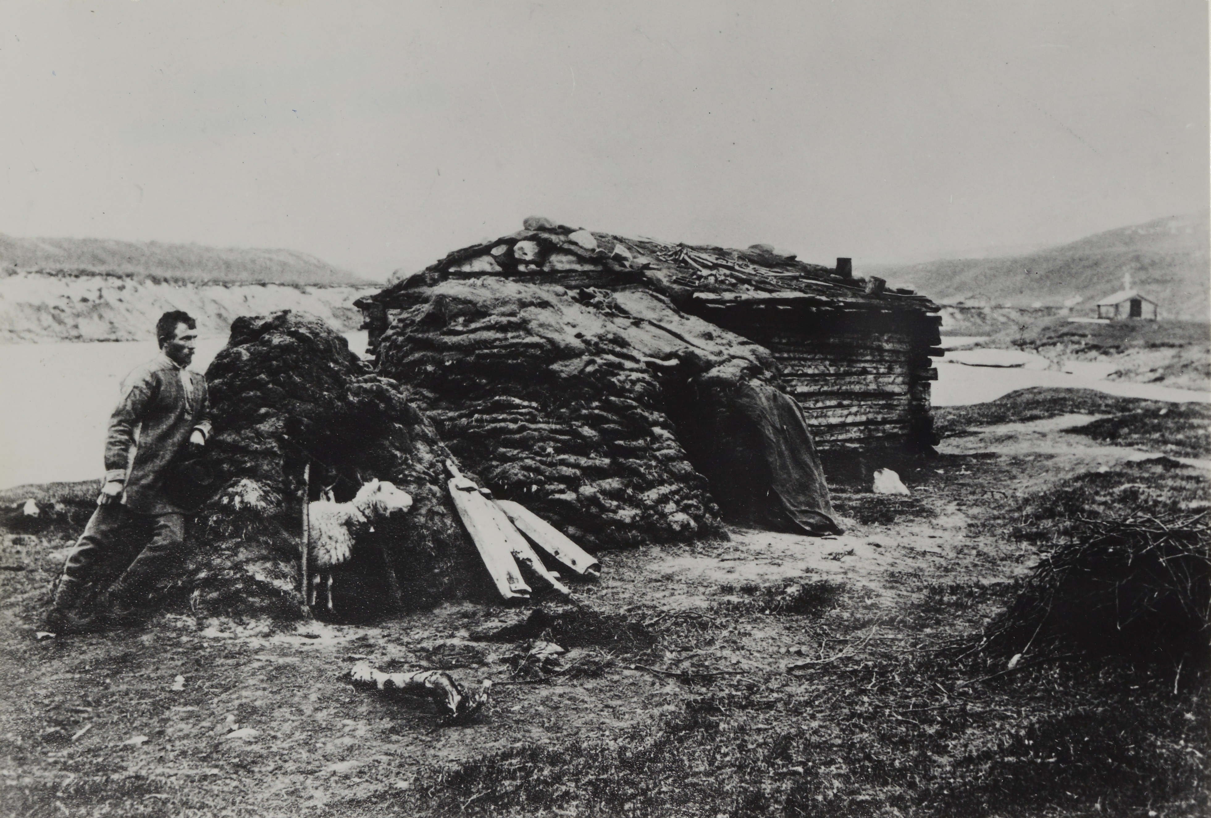 Skoltesami hut in Skoltebyen (Neiden)